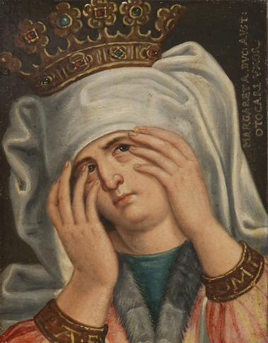 Margaret of Babenberg, daughter of Leopold VI of Babenberg